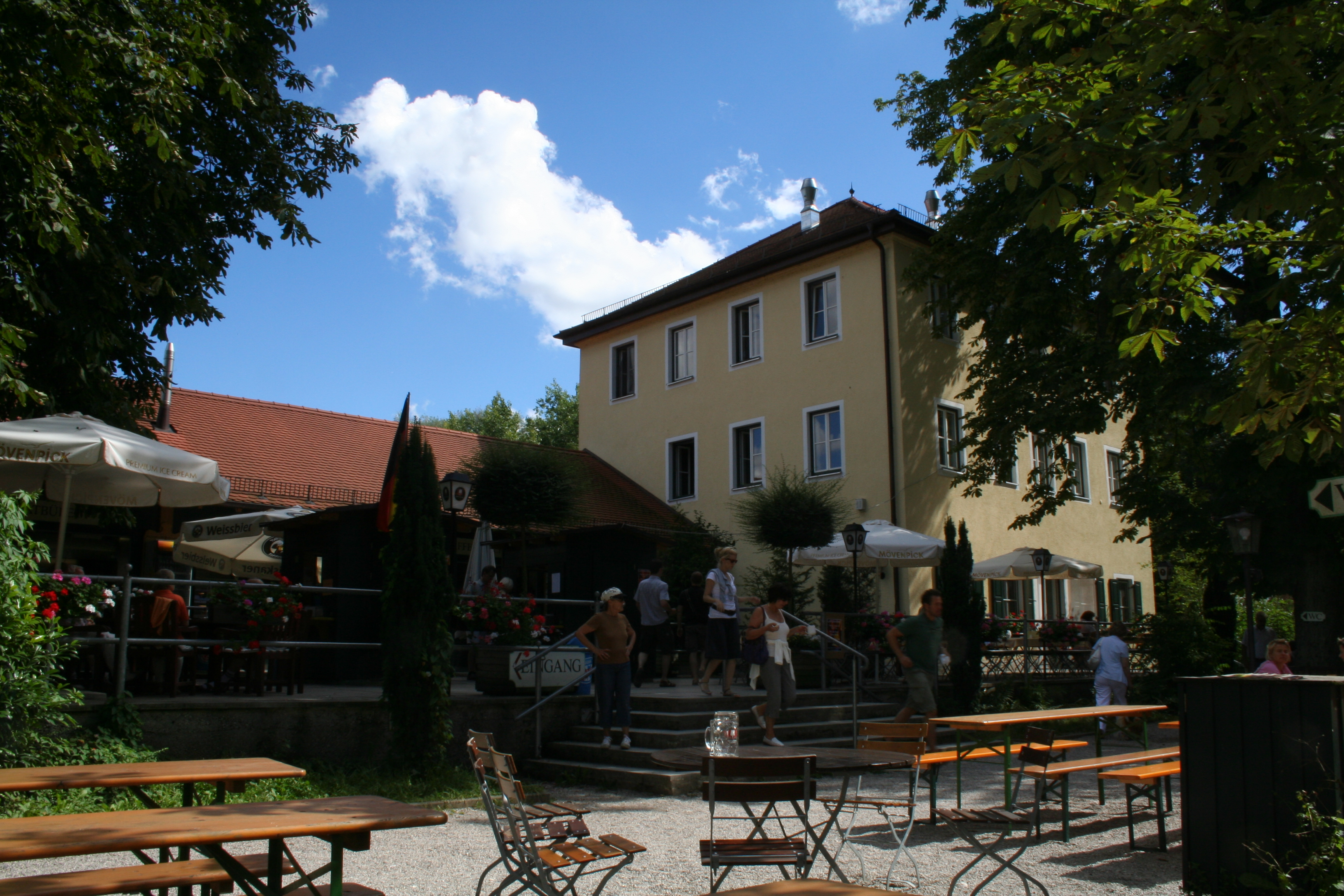 Hirschau Biergarden in the northern part of the English Garden, Munich